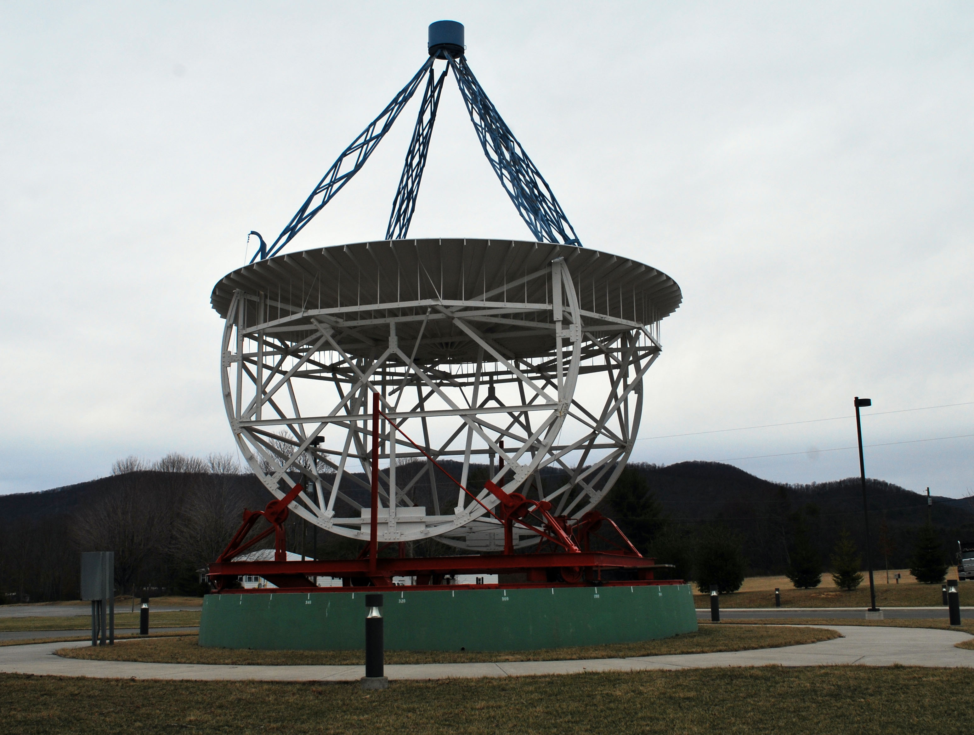 Photo of Reber Telescope at National Radio Astronomy Observatory in Green Bank, West Virginia.